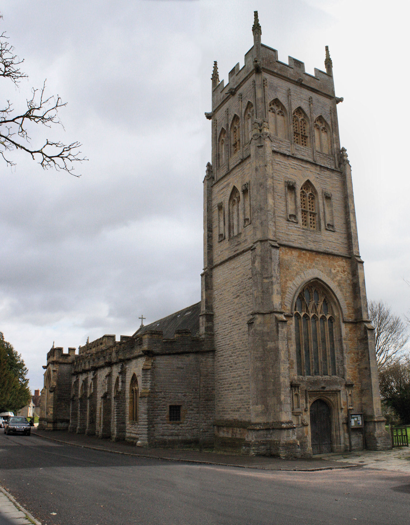 All Saints' parish church, The Hill, Langport, Somerset, seen from the northwest